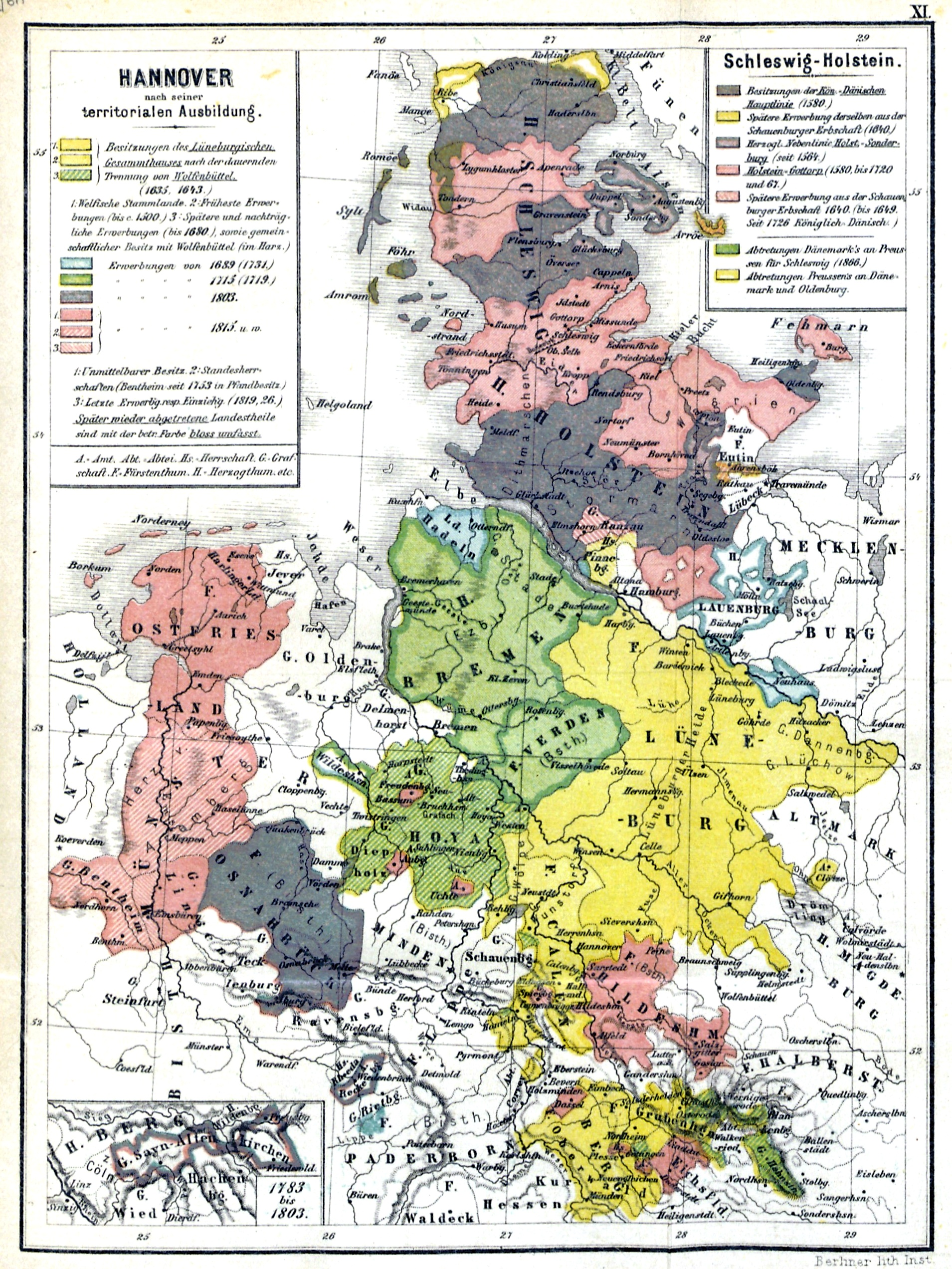 Image extracted from page 247 of Die Territorialgeschichte des brandenburgisch preussischen Staates, im Auschluss an zehn historische Karten übersichtlich dargestellt, Fix W. Original held and digitised by the British Library. Note: The colours, contrast and appearance of these illustrations are unlikely to be true to life. They are derived from scanned images that have been enhanced for machine interpretation and have been altered from their originals.